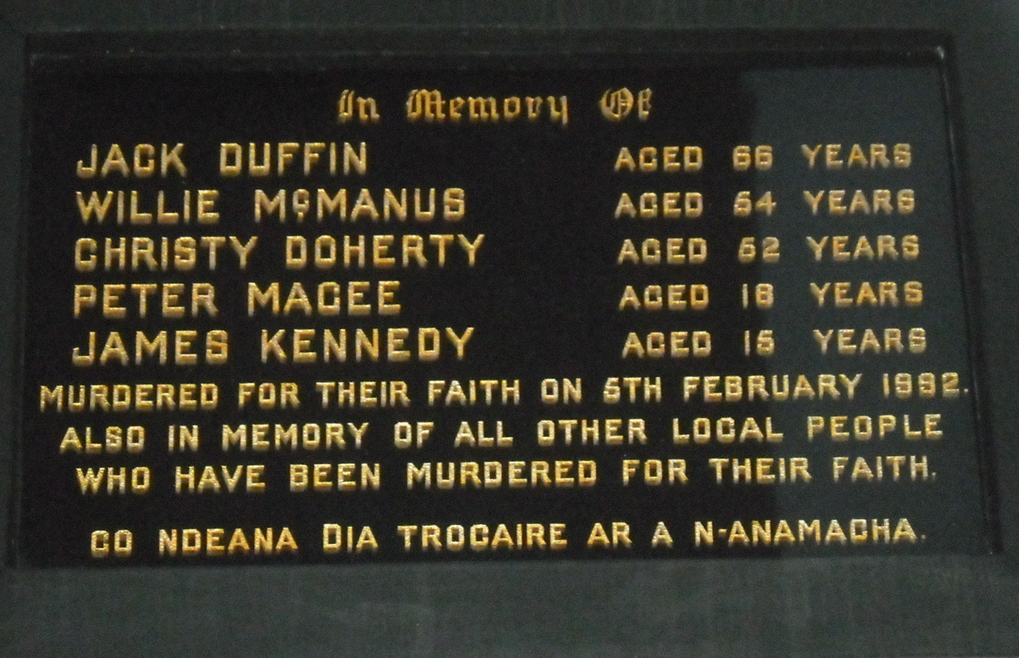 Plaque showing those killed in the Sean Graham shooting, Hatfield Street, Belfast